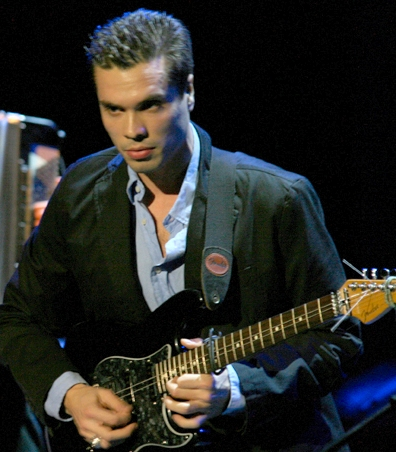 Miklos Both, lead guitarist and singer of Hungarian world music band Napra.